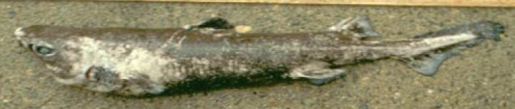 Black dogfish (Centroscyllium fabricii)